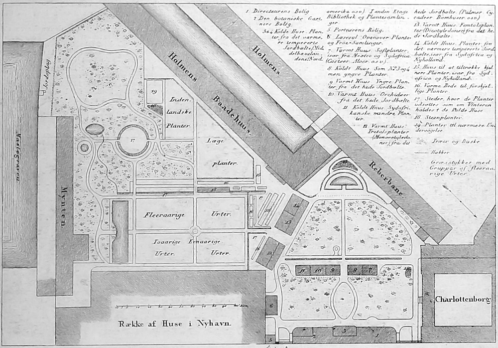 Map from 1847 showing the previous Botanical Gardens in Copenhagen, placed by Charlottenborg.